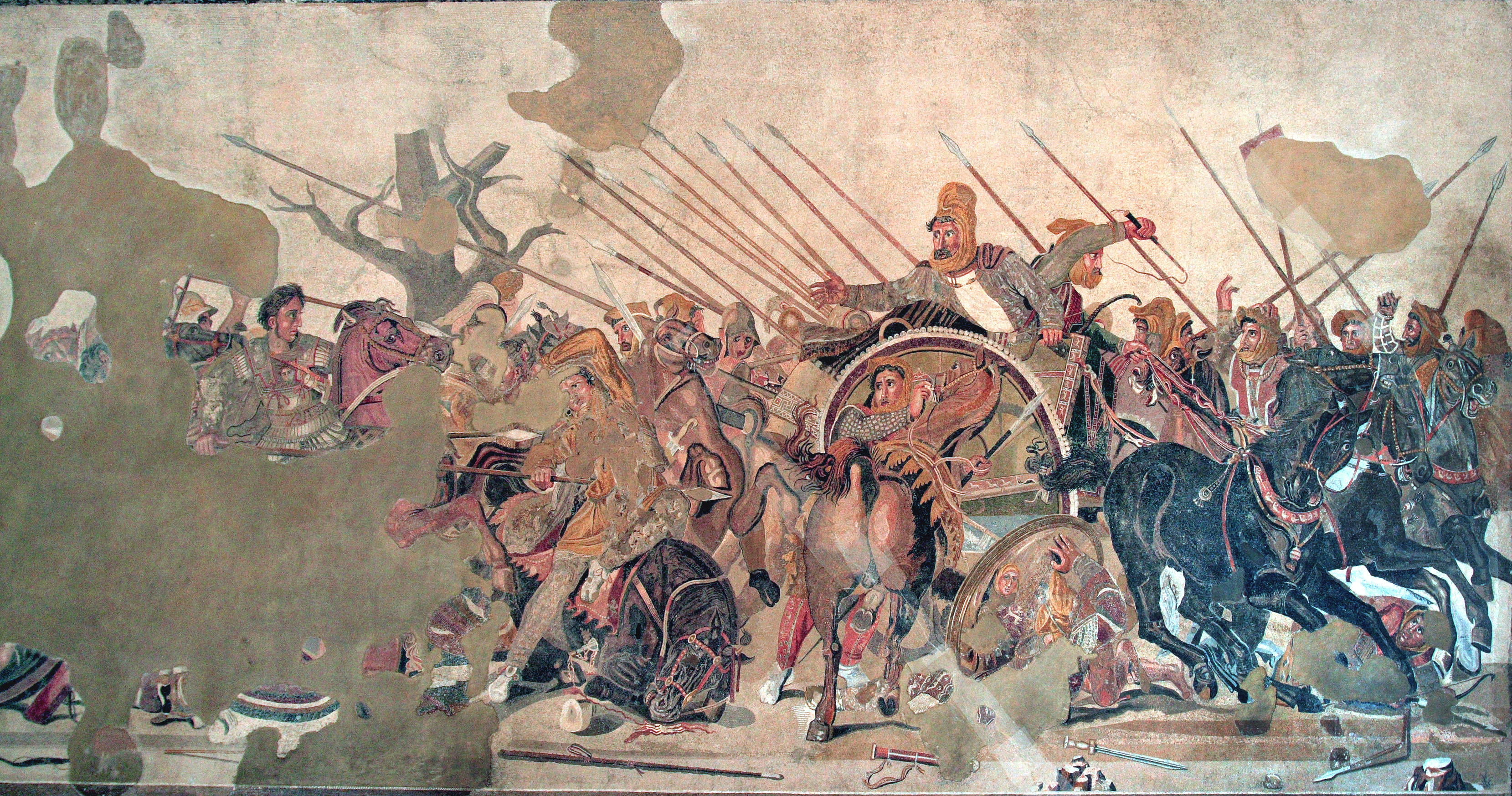 Magrippa (talk) 04:39, 10 February 2008 (UTC)MMagrippa (talk) 04:39, 10 February 2008 (UTC)alexander mosaic photographed in Museo Archaeologico Naples